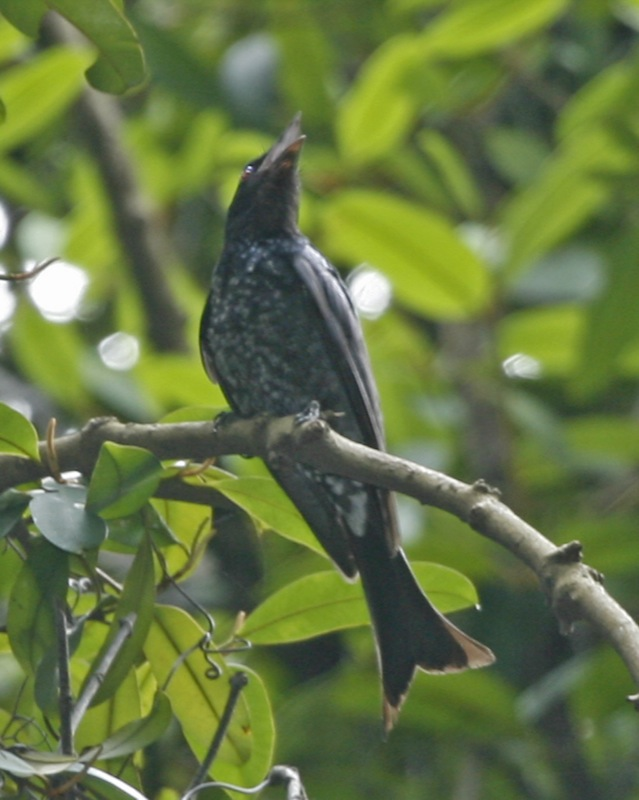 Crow-billed Drongo Dicrurus annectans January 25, 2006 Singapore Botanic Gardens Distribution: Malay: Cecawi Paruh Tebal Thai: นกแซงแซวปากกา